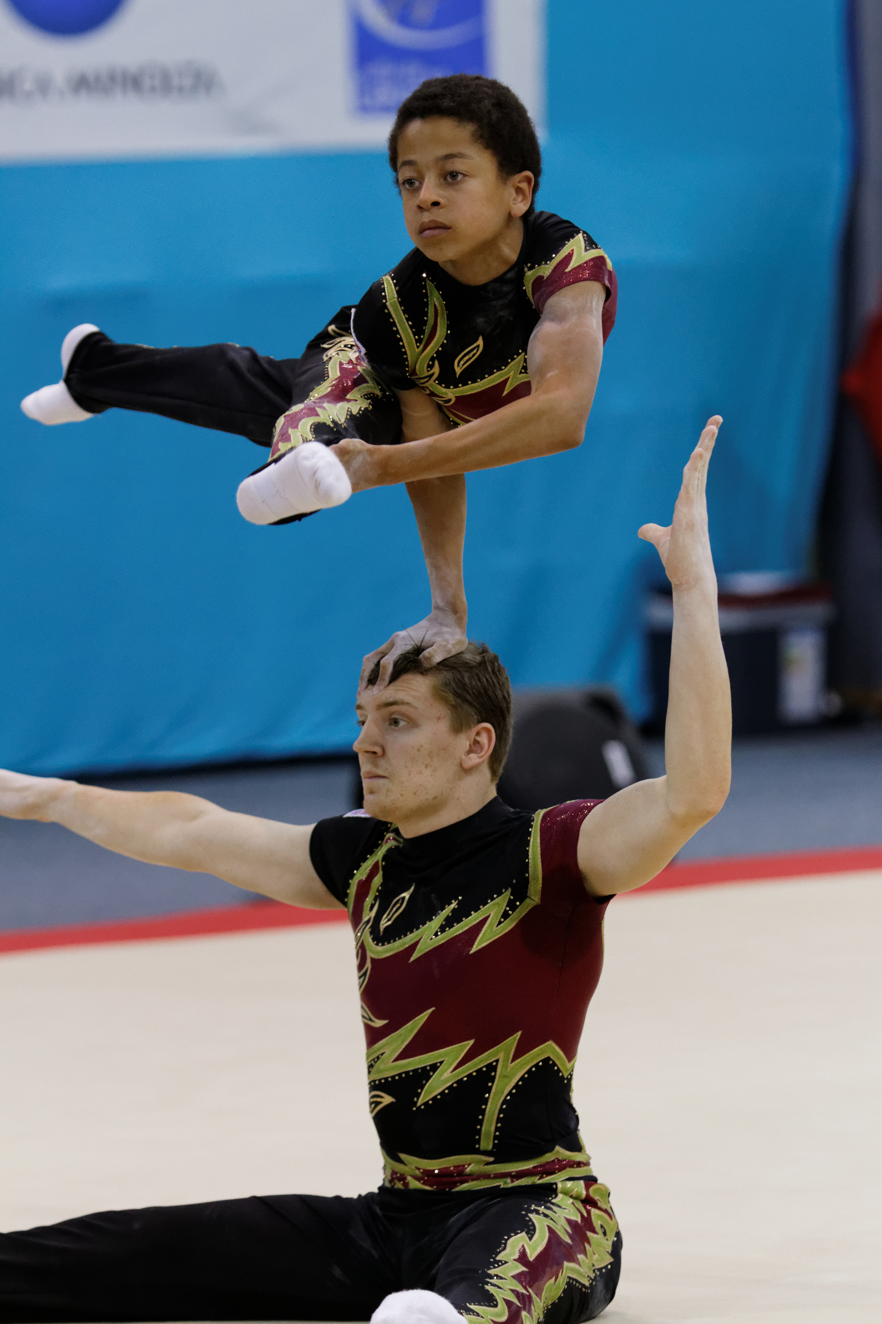 2014 Acrobatic Gymnastics World Championships, 10th-12 July, Levallois-Perret, France. Finals: men's pair. Great Britain.